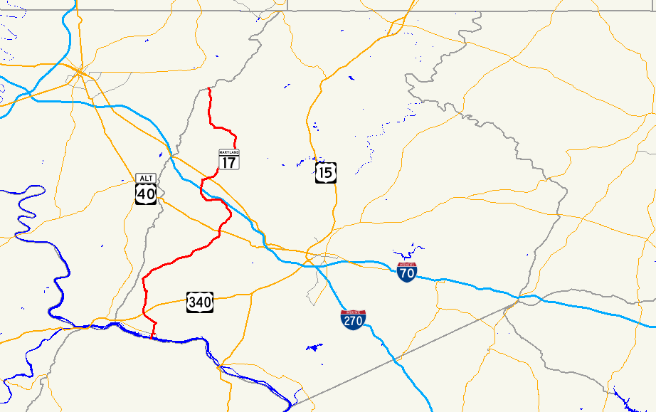 Map of Maryland Route 17